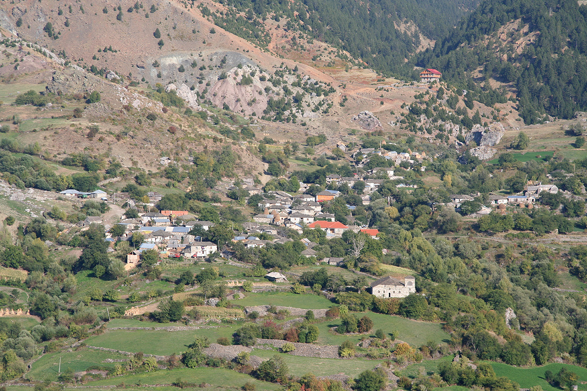 Grabova and the surronding area as seen from Valamara.